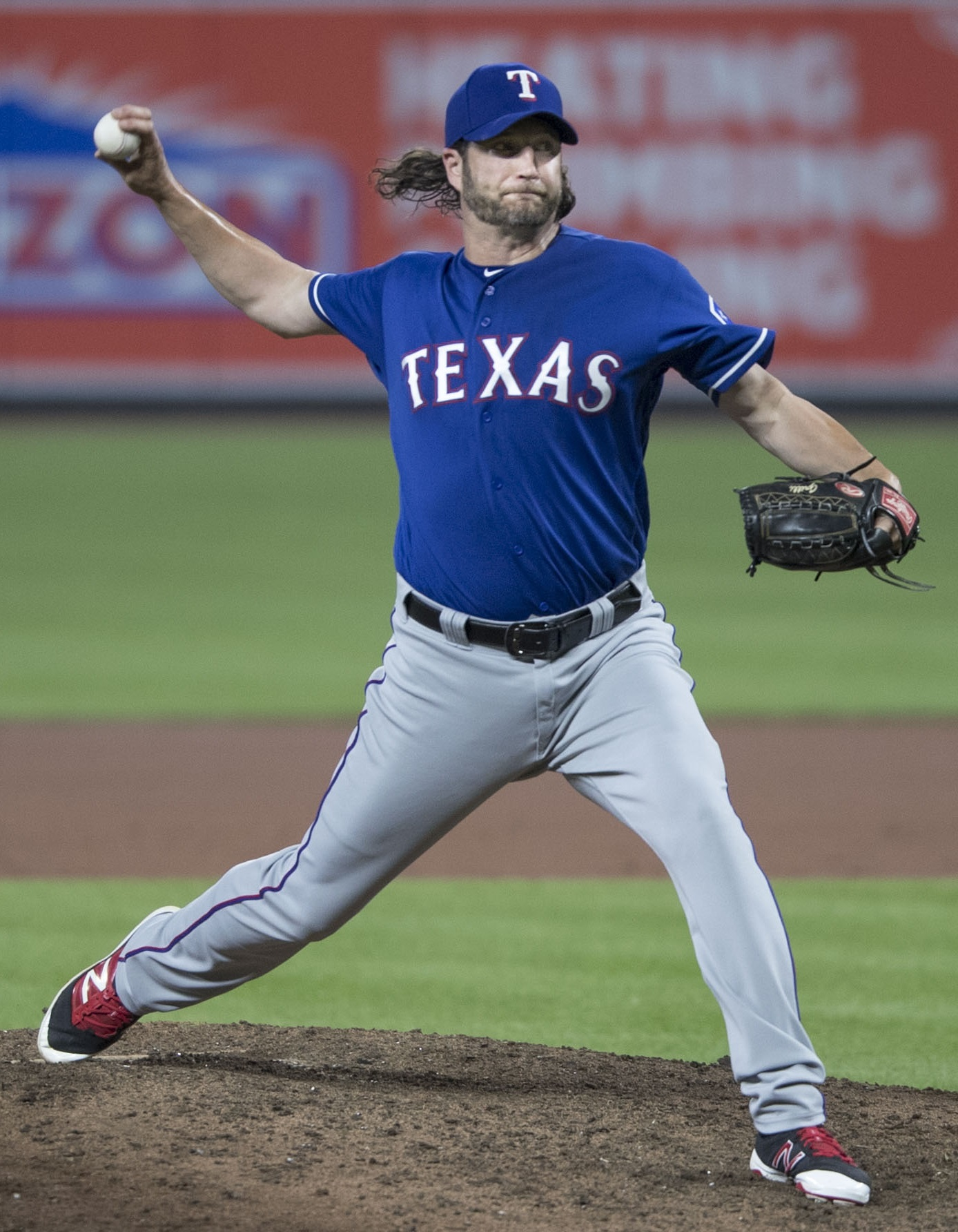 Rangers at Orioles 7/19/17